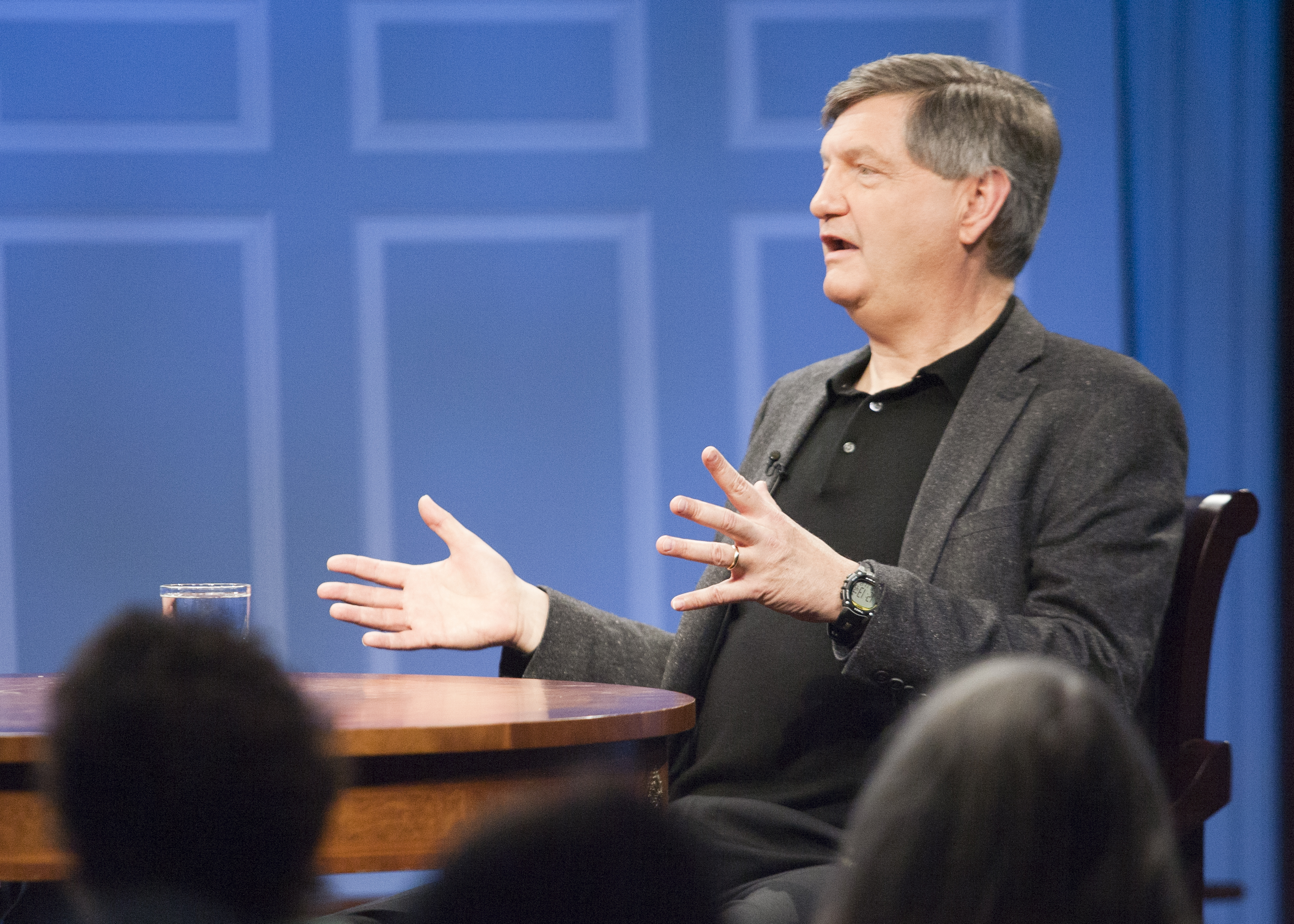 James Risen speaks about his book Pay Any Price: Greed, Power, and Endless War at the Miller Center in Charlottesville, Virginia.